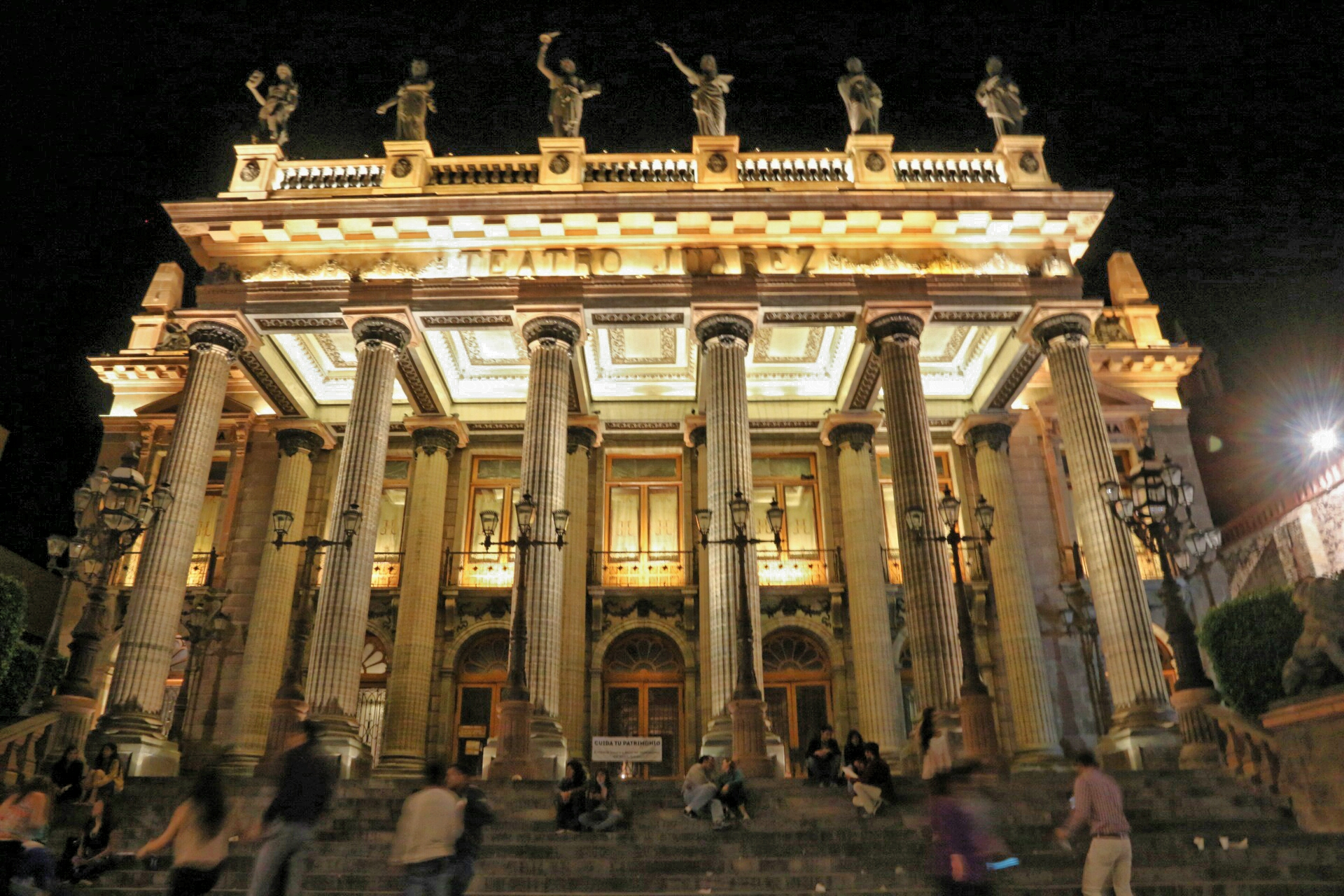 Juarez theater at Guanajuato, Guanajuato, Mexico.